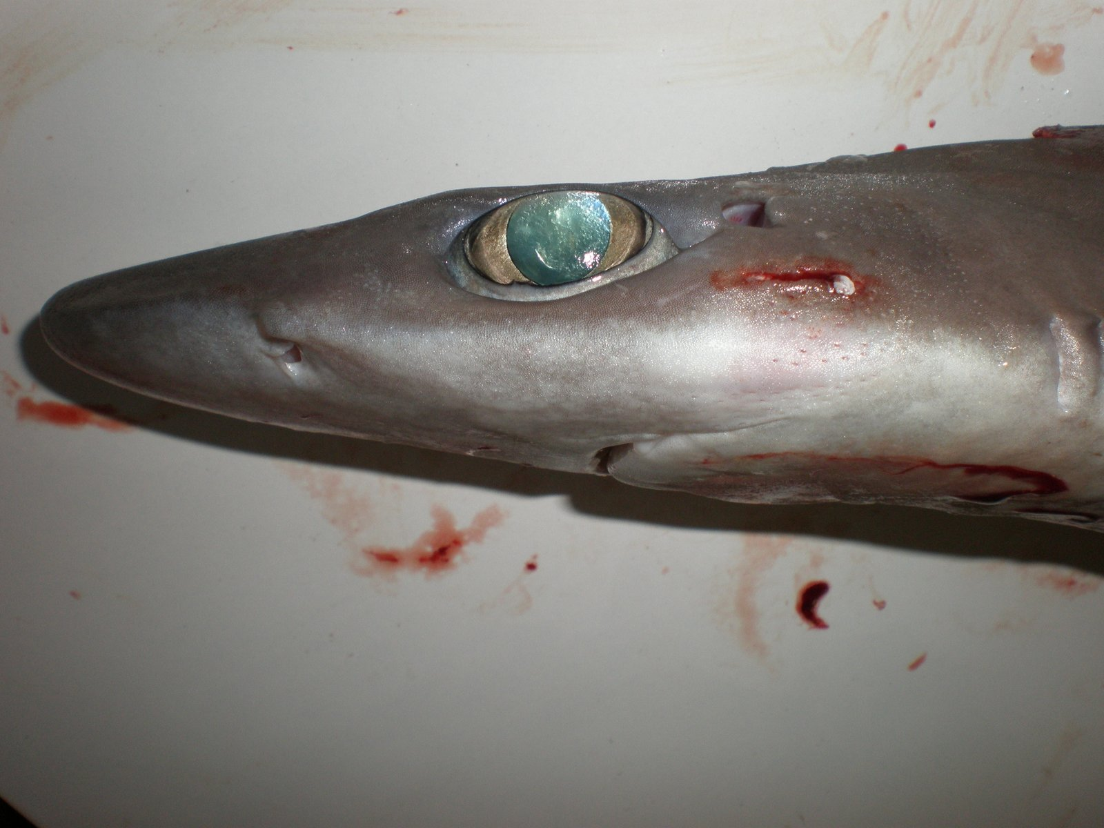 Squalus melanurus. Head. Locality: off passe de Dumbéa, off Nouméa, New Caledonia, depth 350 metres. Total length 650 mm, span 175 mm, Weight 1,000 grams. Specimen identified by Bernard Séret (IRD-MNHN).Date 2008-10-23.